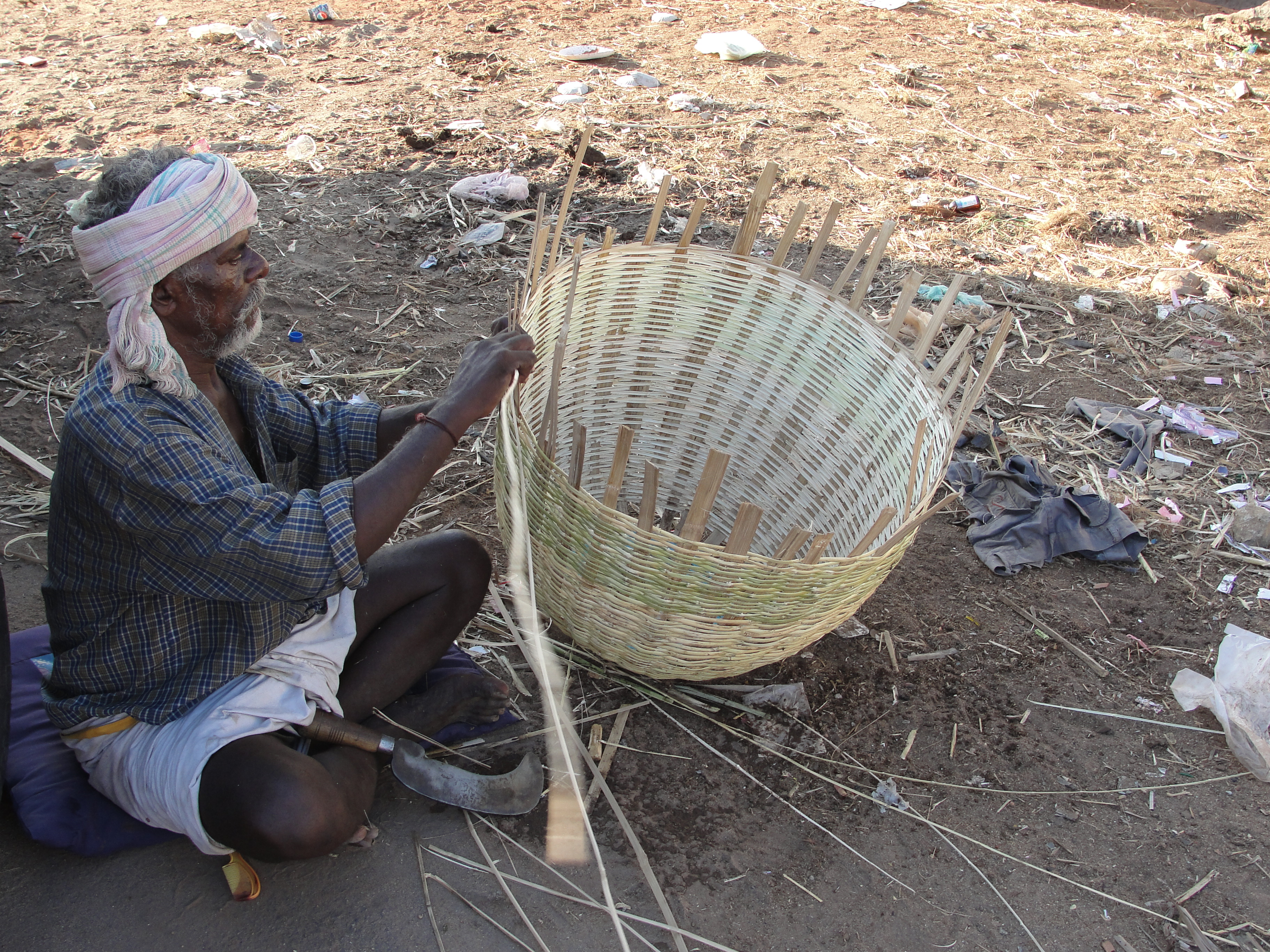 A bamboo basket making